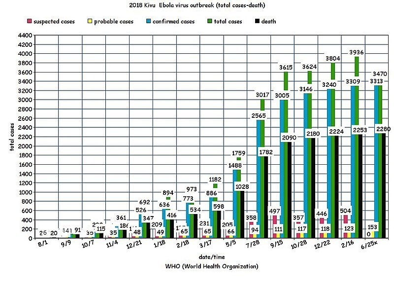 this is one of several graphs that have been done for ,2018 Kivu Democratic Republic of the Congo Ebola virus outbreak, as the outbreak continues to expand